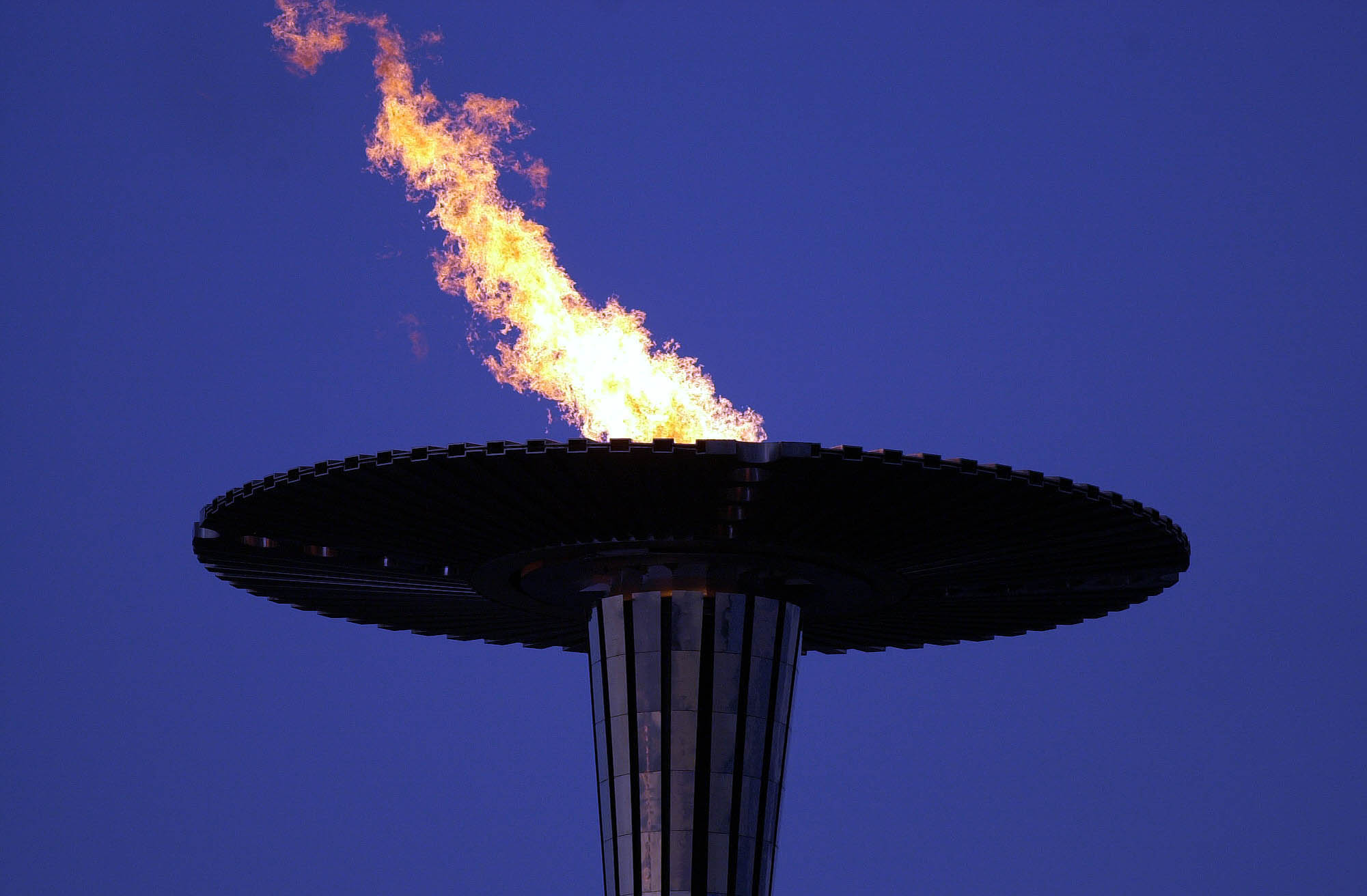 View of the Paralympic Flame cauldron alight in the night sky at the 2000 Sydney Paralympic Games, Day 03